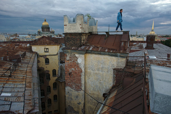 Roofer's walk. Roofs. Saint Petersburg, Russia. Photo by Anton Vaganov.